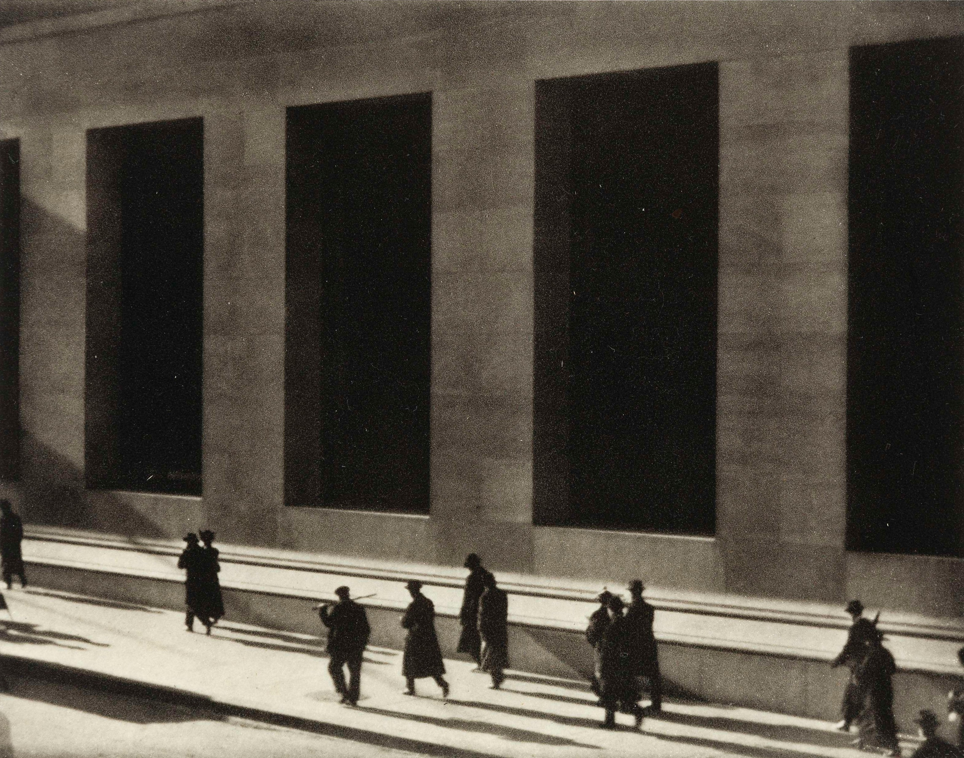 Paul Strand took this photograph from the steps of the New York Federal Hall during morning rush hour. The recently completed building of white marble at 23 Wall Street (on the southeast corner of Wall and Broad Streets) was located in one of the most expensive areas of real estate in New York City. A symbol of financial power, it was the new headquarters of J.P. Morgan and Company. The photograph grew out of what the artist described as an attempt to capture a “kind of movement” that was at once “abstract and controlled.” The long horizontal shadows of the figures counterpose the yawning dark verticals of the Morgan Bank’s windows, and the dynamism of their movement plays off of the building’s solidity. While this image evokes the tenor of urban existence in early twentieth century America, it is just as important for its abstract formal patterns and structures, which Strand believed were uncovered by the camera’s objectivity. The photograph can be seen as the quintessential representation of the uneasy relationship between early twentieth-century Americans and their new cities. Here the people are seen not as individuals but as abstract silhouettes trailing long shadows down the chasms of commerce. The intuitive empathy that Strand demonstrates for these workers of New York's financial district would be evident throughout the wide and varied career of this seminal American photographer and filmmaker, who increasingly became involved with the hardships of working people around the world. In this and his other early photographs of New York, Strand helped set a trend toward pure photography of subject and away from the "pictorialist" imitation of painting.